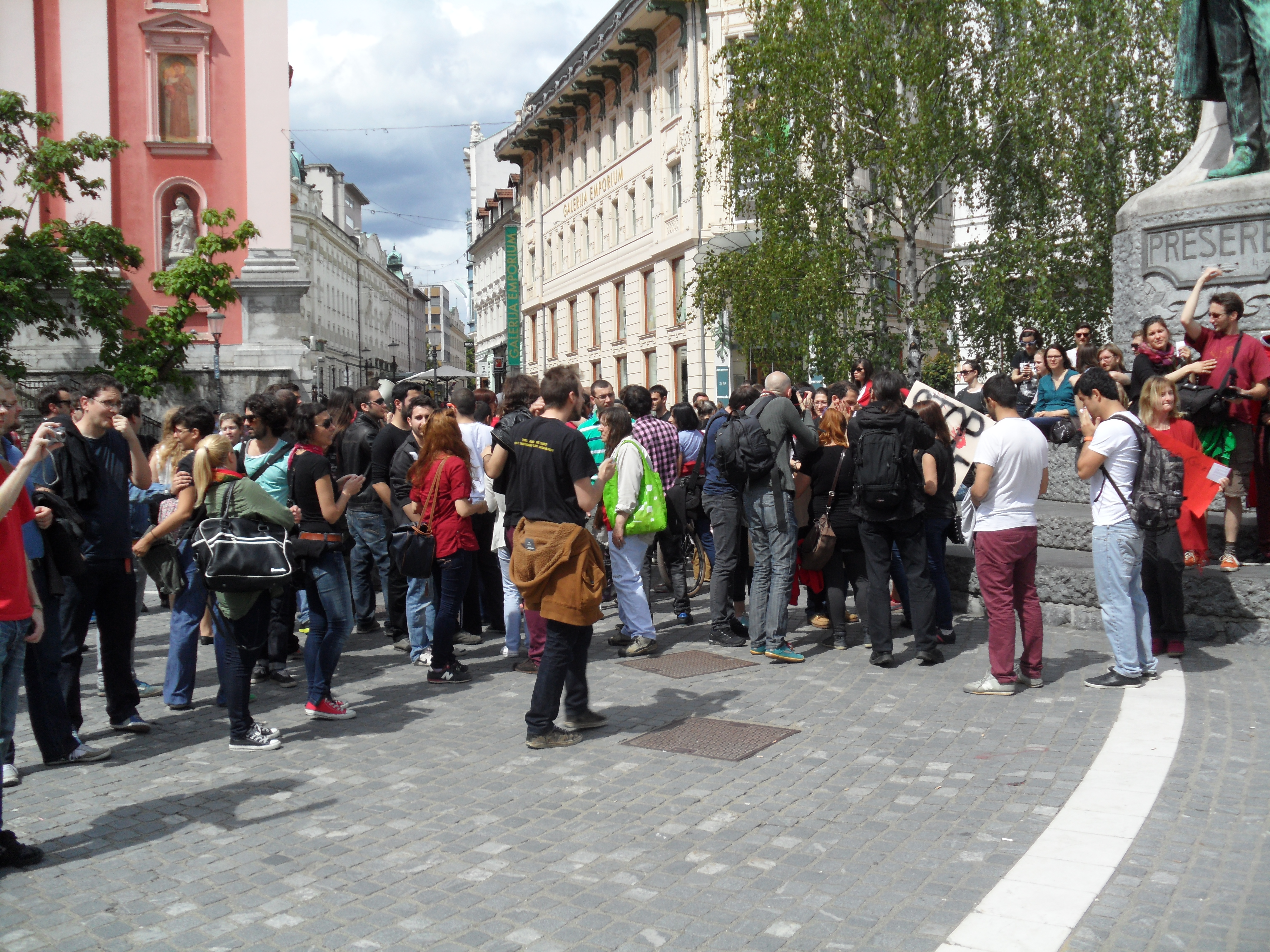 Turkey, You are not alone -- Slovenian solidarity march with the Turkish uprising. Around 100 people gathered on Monday, 3 June 2013, in front of the Turkish embassy in Ljubljana, Slovenia, to condemn the police brutality and to show solidarity with insurections in Turkey. This was the second solidarity march with the Turkish uprising in Ljubljana (the first one was held on Saturday, 1 June 2013).